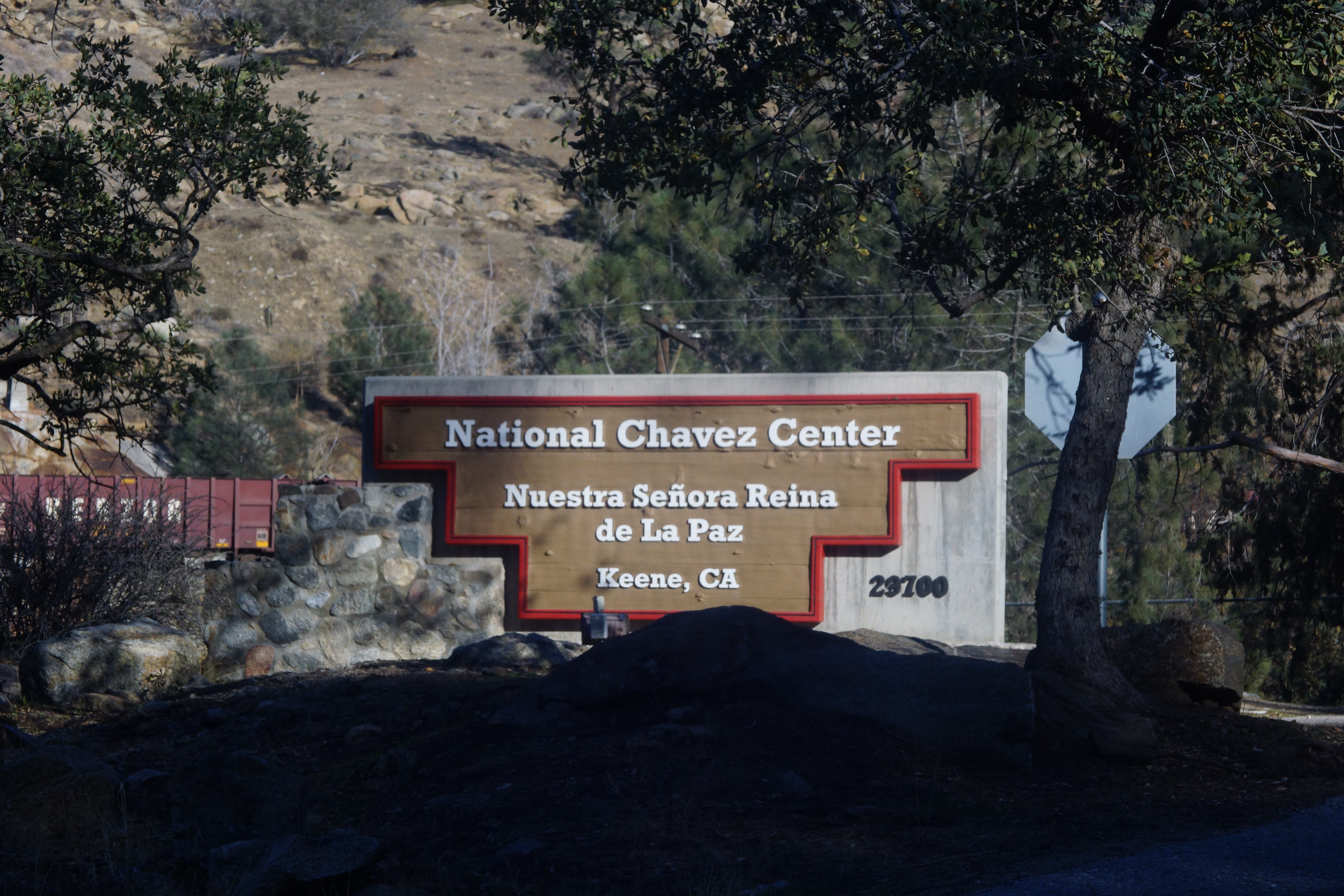 2013, Cesar E Chavez National Monument